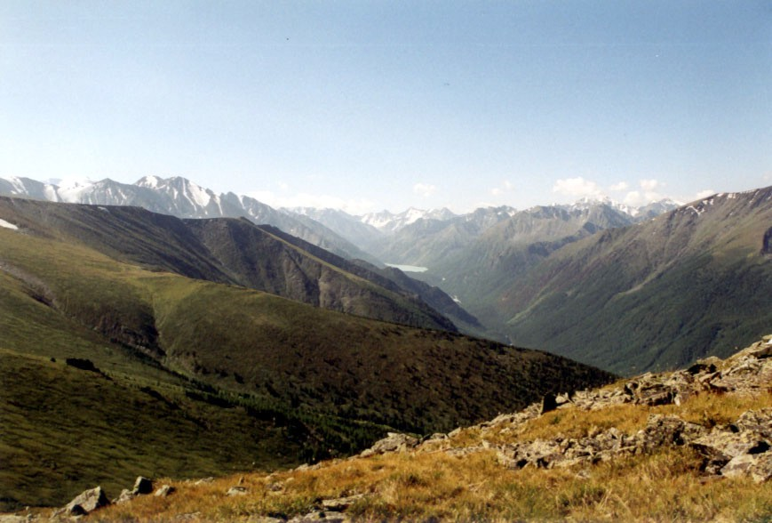 Altai, (Valley and Lake Kutsherla in Altay Mountains), Russia